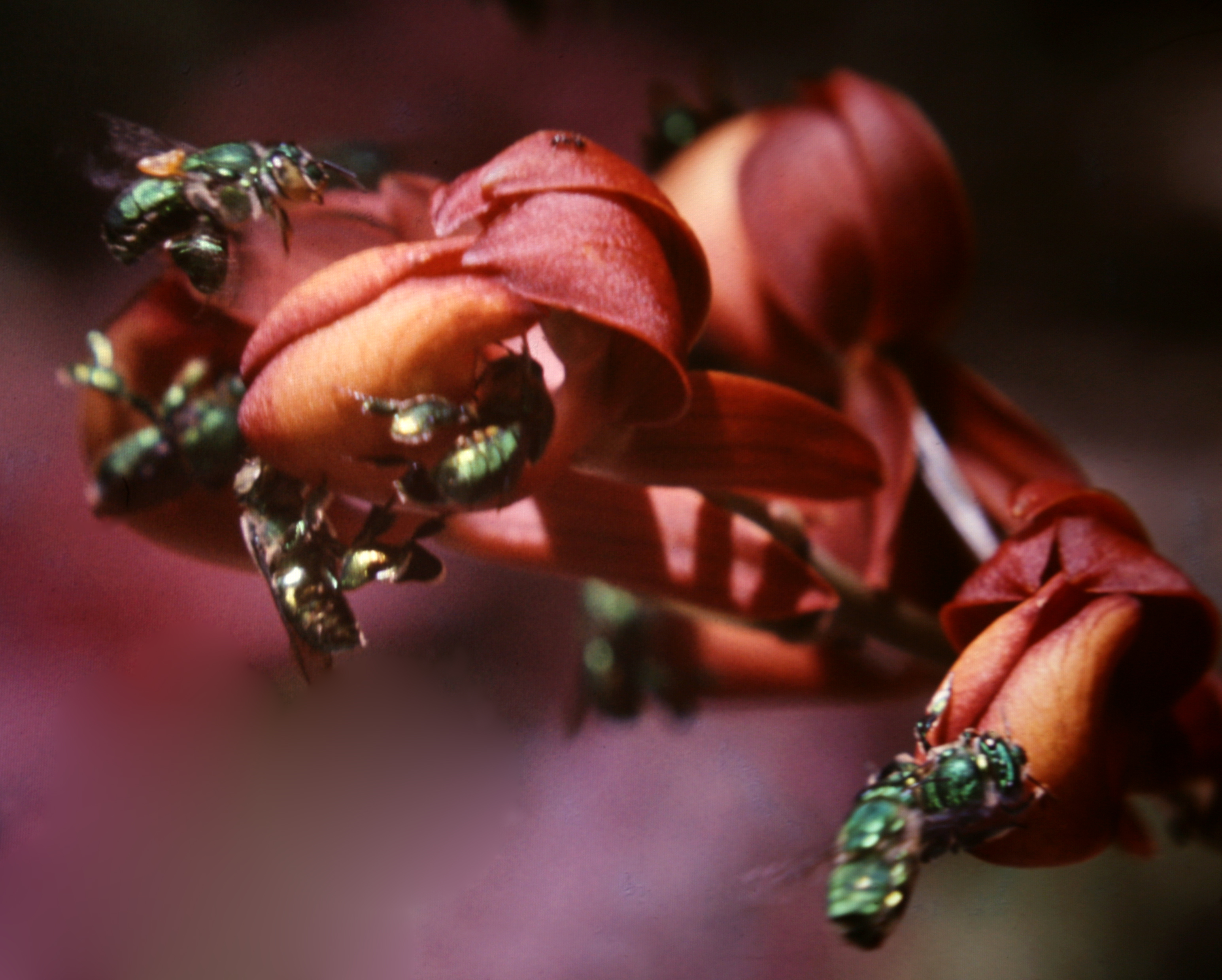 Mormodes buccinator, Suriname. Pollinator: a bee from the Euglossini, also called orchid bees. Bee in upper left corner is carrying pollinia.